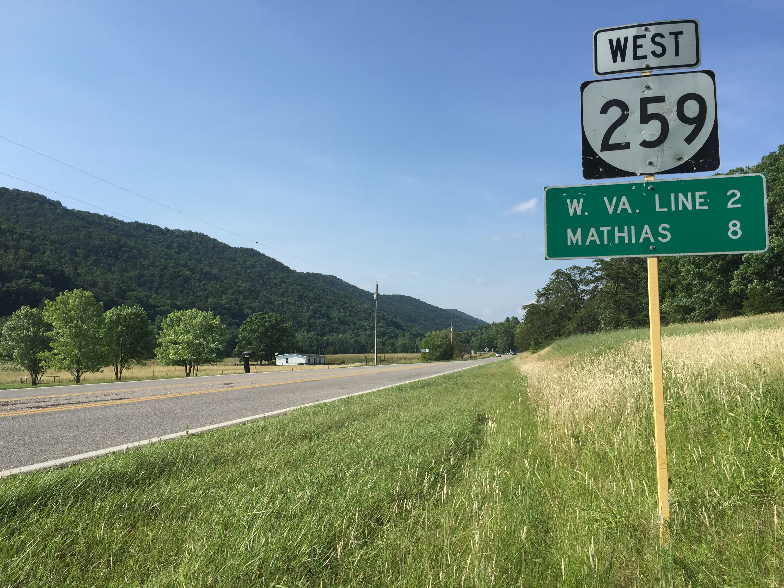 View west along Virginia State Route 259 (Brocks Gap Road) at Virginia State Secondary Route 820 (Bergton Road) in northern Rockingham County, Virginia